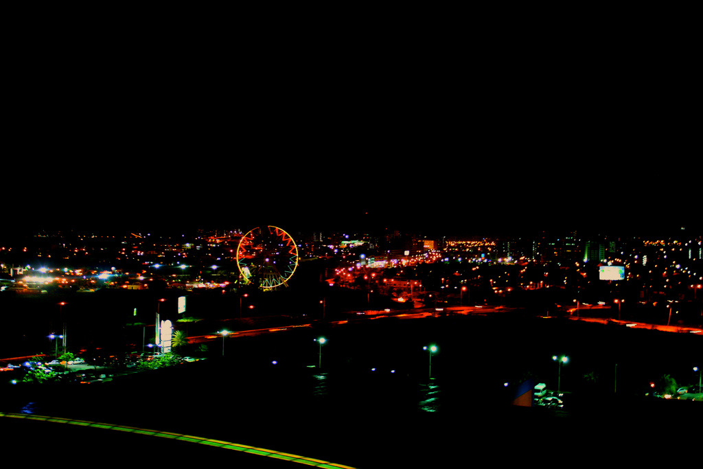 Margarita.